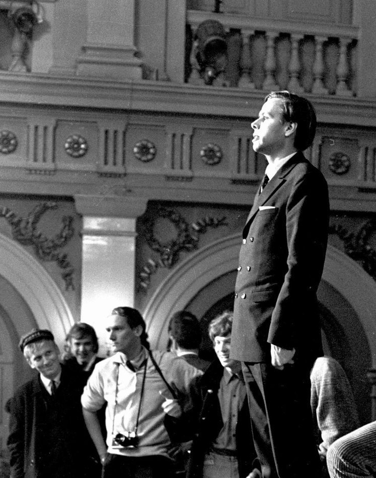 Photograph of the Finnish scholar Yrjö Larmola (1940–) speaking at the occupation of the Old Student House in Helsinki. In the background, the photographer Max Paetau.